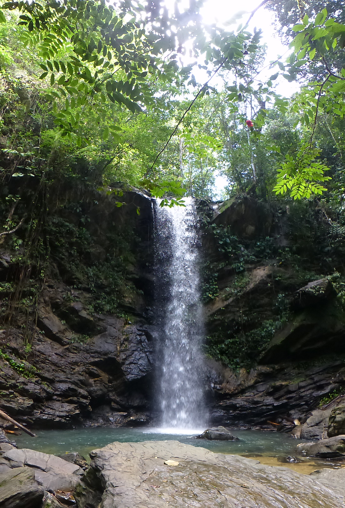 Avocat Fall, southeast of Blanchisseuse, Trinidad. To visit, ask for a guide at the "supermarket" opposite the church in Blanchisseuse. You won't find it yourself.